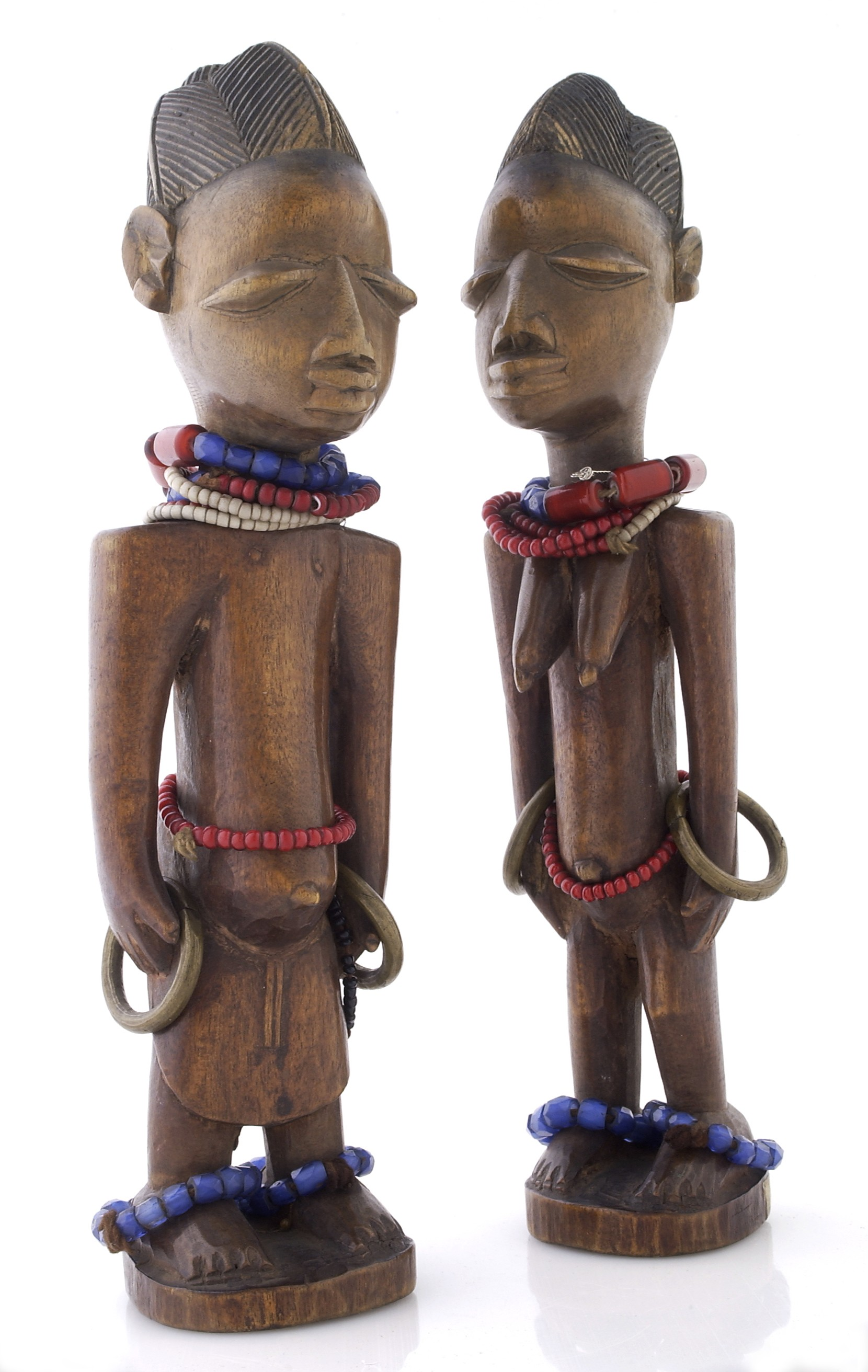 Yoruba Ibeji figures, representing a male and female twins. The figures, when made, are soaked in an infusion of medical plants, and adorned with amulets to ensure the twins' good fortune. Wellcome Images Keywords: Jewellery; Africa; Anthropology; Nigerian; Twins; Amulets and Charms; Nigeria